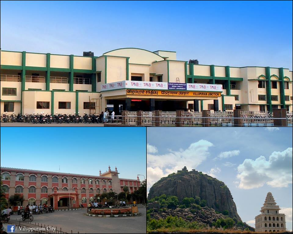 Glory Of Viluppuram